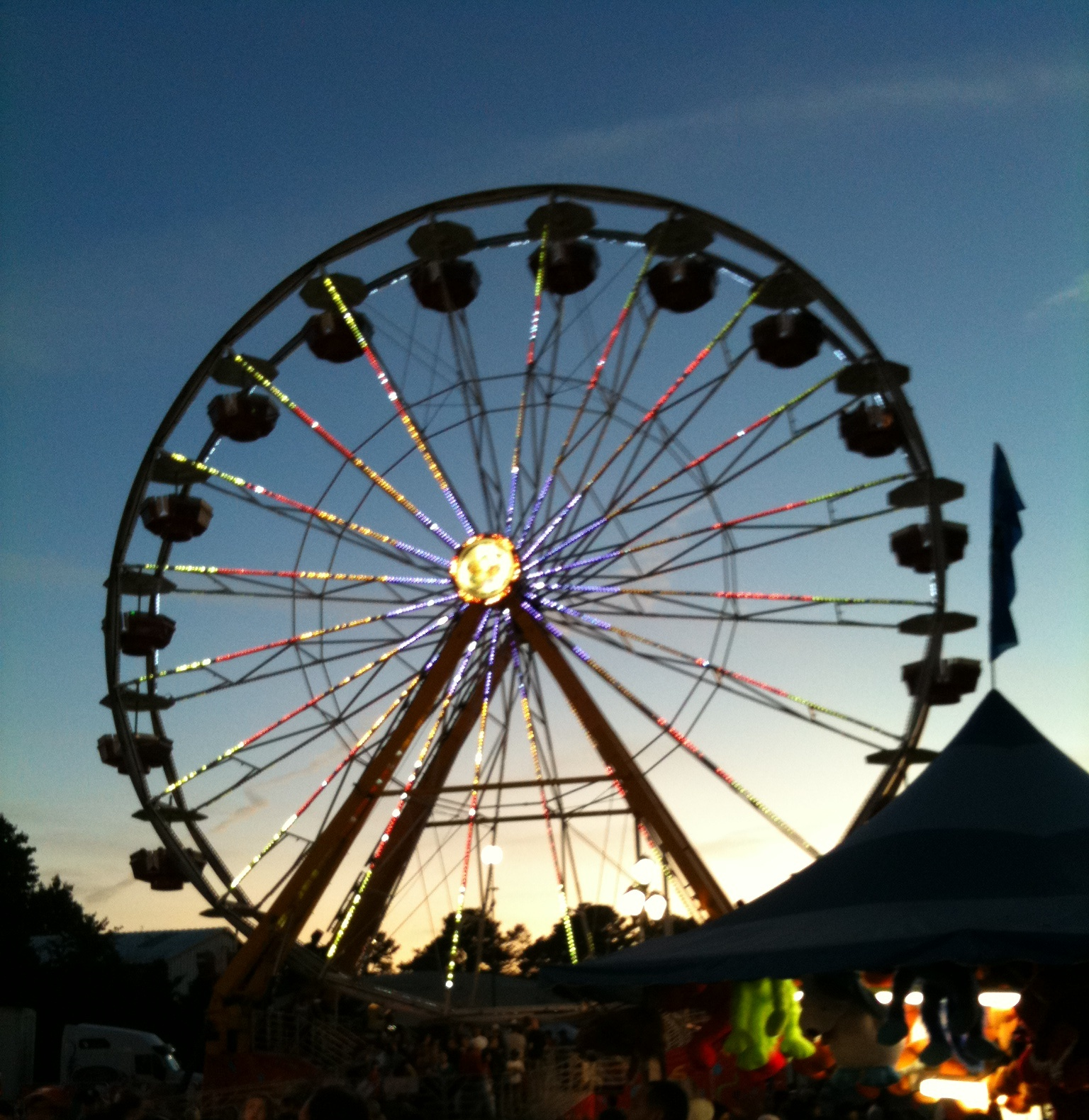 One of the several Ferris Wheels at the North Carolina State Fair in 2009. Taken on October 22, 2009.